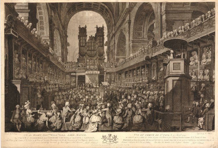 View of the Father Smith organ in St Paul's Cathedral on occasion of Solemn thanksgiving for the Recovery of His Majesty, 23 April 1789, George III. Engraved by Robert Pollard after Richard Dayes.